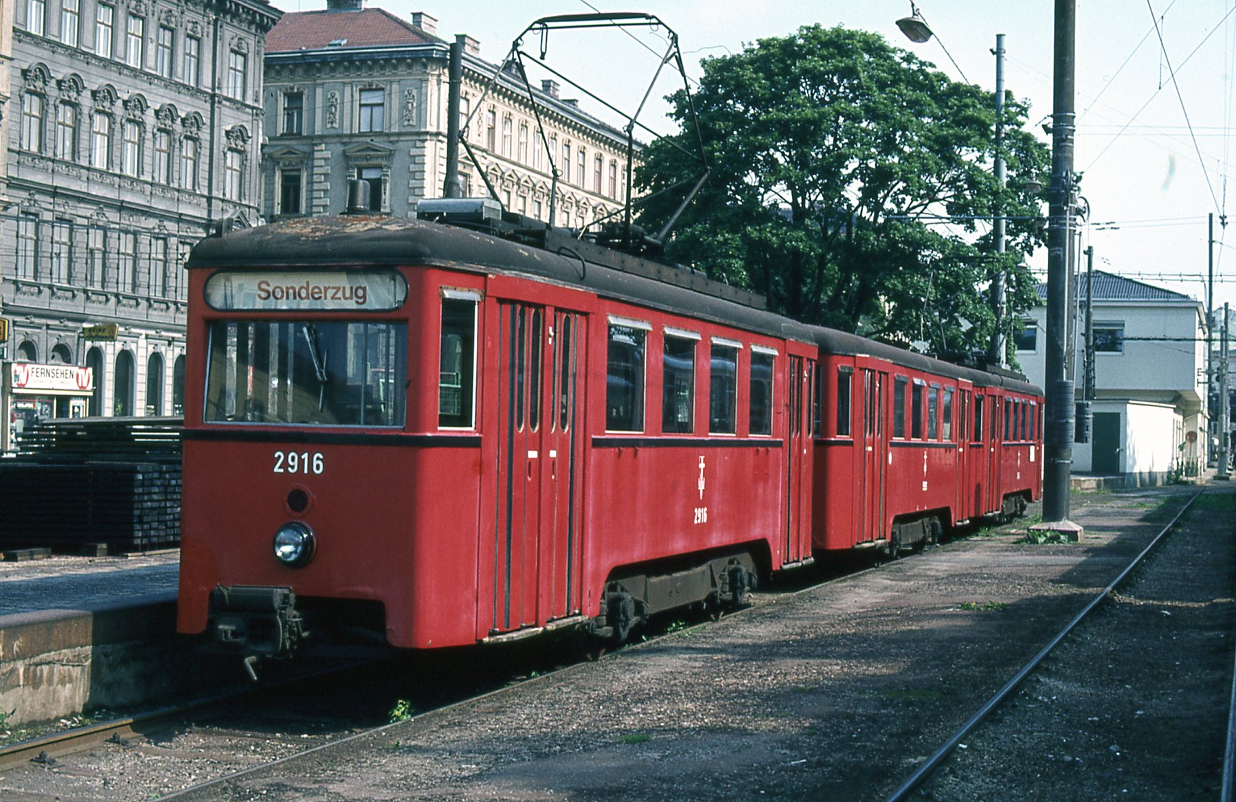 Special train with N1 cars at Michelbeuern station.